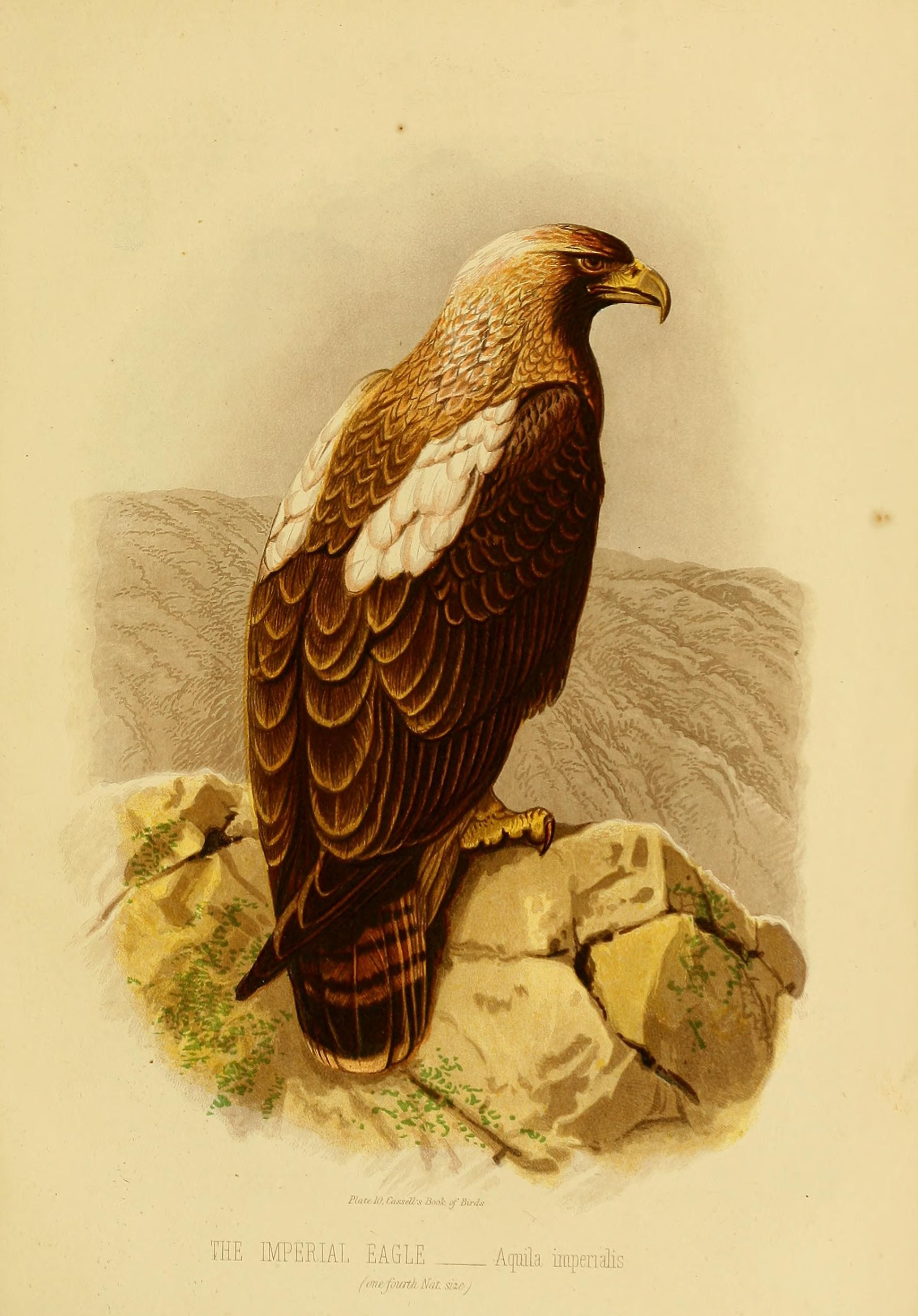 THE IMPERIAL EAGLE Aquila imperialis (one fourth Nat. size)